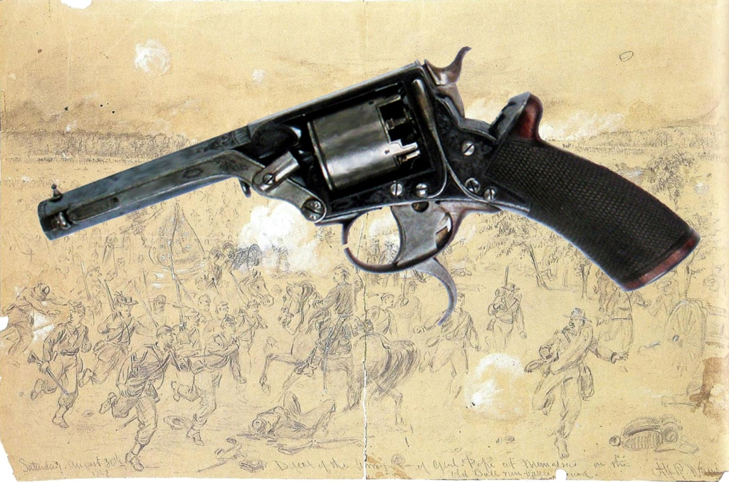 Tranter 1st Model